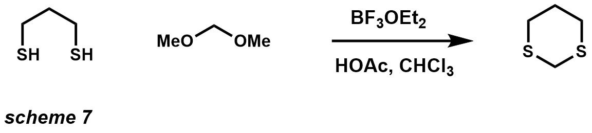 Formation of dithianes with lewis acid